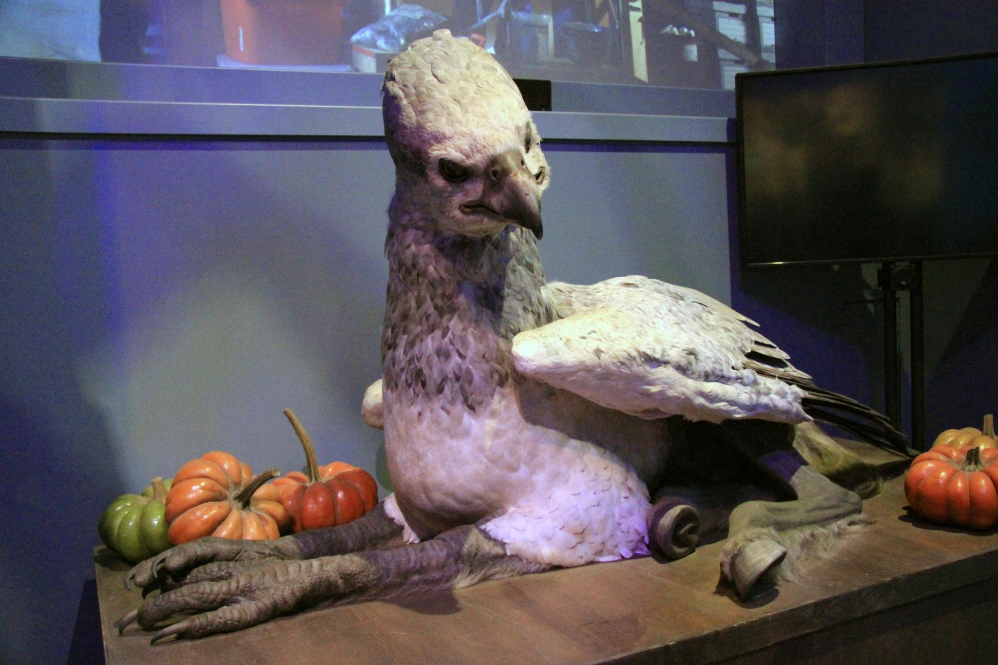 Warner Bros. Studio Tour London: The Making of Harry Potter.